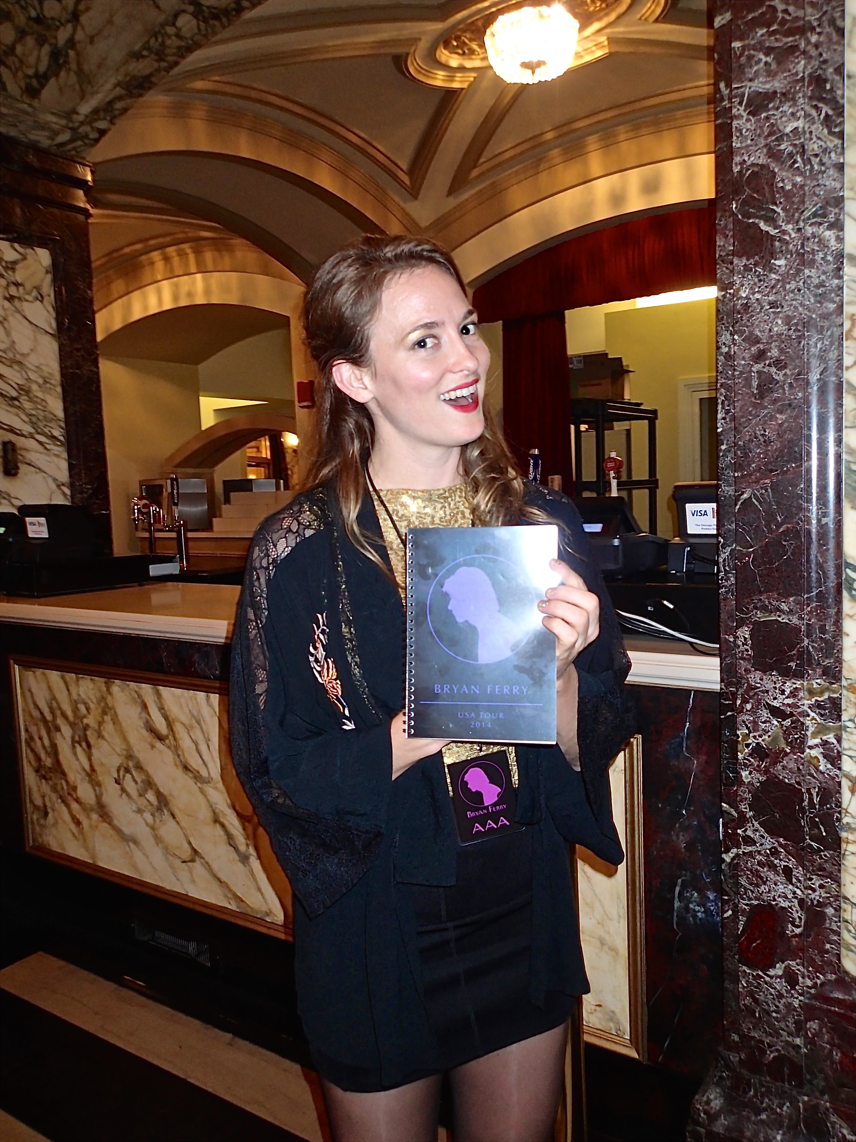 dawn opened for Bryan Ferry. This was their kick-off performance, with Milwaukee, Minneapolis, Canadian cities and the biggest East Coast cities to follow. Indigo Street augmented dawn on guitar, providing very good instrumental support. But Sir Bryan's band... goodness... it was worth the institutionally scalped ticket price just to witness their aggregate awesomeness. Don't miss it if coming to an opulent music palace near you. And dawn... what can one say except, what a blessed evening for yours truly.